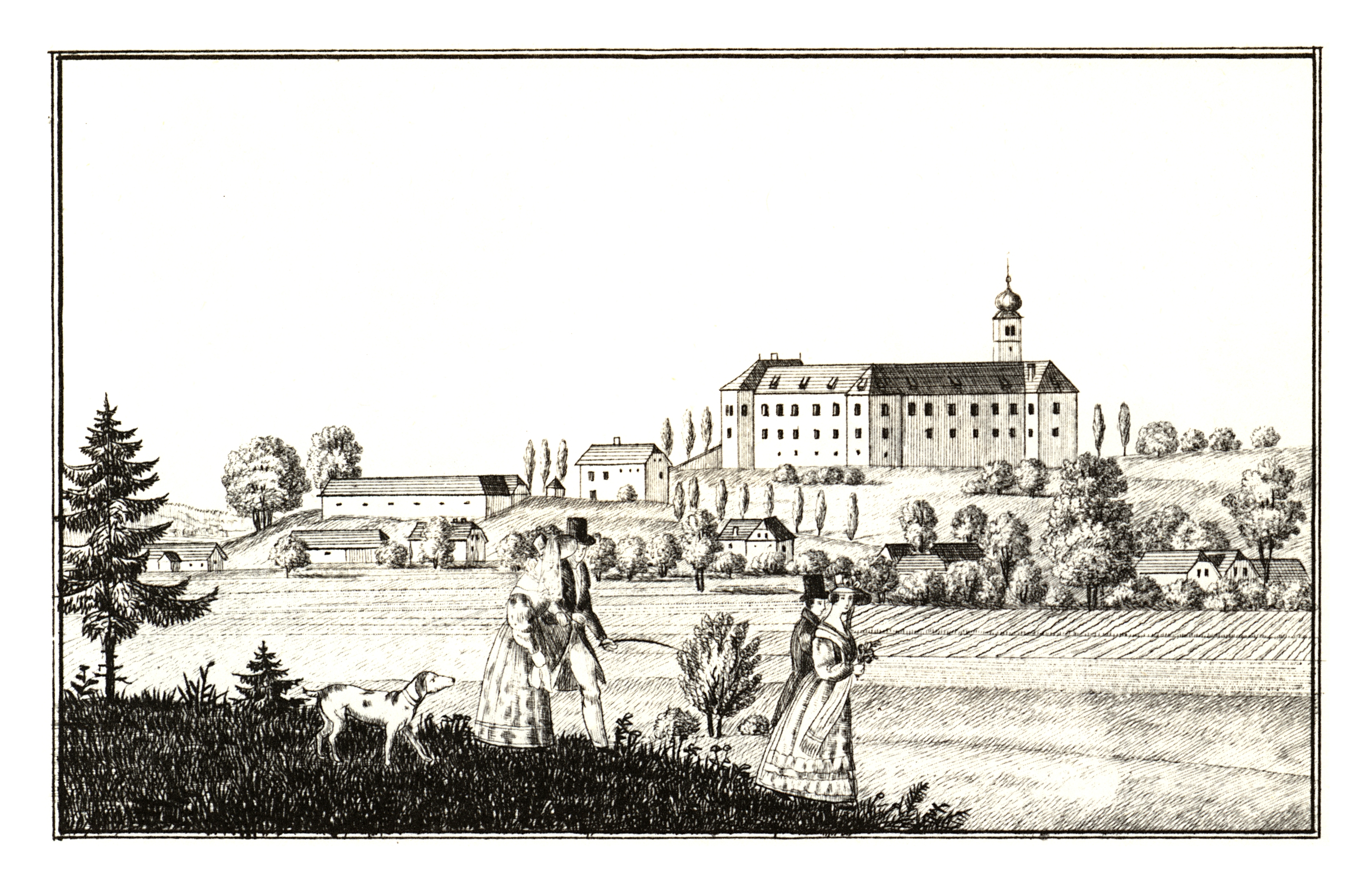 J. F. Kaiser - lithographirte Ansichten der Steyermärkischen Städte, Märkte und Schlösser, Graz 1824-1833 Joseph Franz Kaiser (1786–1859) Alternative names J. F. KaiserDescriptionAustrian printer and editorDate of birth/death 11 March 1786 19 September 1859Location of birth/death Graz (Styria) GrazAuthority control : Q1499963 VIAF: 30629353 ISNI: 0000 0000 3083 0153 LCCN: n87141671 GND: 129880159 NLP: A24960305 WorldCat creator QS:P170,Q1499963 . Scanprojekt Community Projektbudget 2012 This scan or this PDF-file was created within the GLAM-project Bookscanning, supported by Wikimedia Germany and Wikimedia Austria as a part of the community-project to capture books, documents and pictures which are not eligible to copyright or for which the copyright has expired. This document describes or depicts an object which is located in Austria today. Send requests for uncompressed scans to Hubertl. This work is in the public domain in its country of origin and other countries and areas where the copyright term is the author's life plus 100 years or less. You must also include a United States public domain tag to indicate why this work is in the public domain in the United States. This file has been identified as being free of known restrictions under copyright law, including all related and neighboring rights.